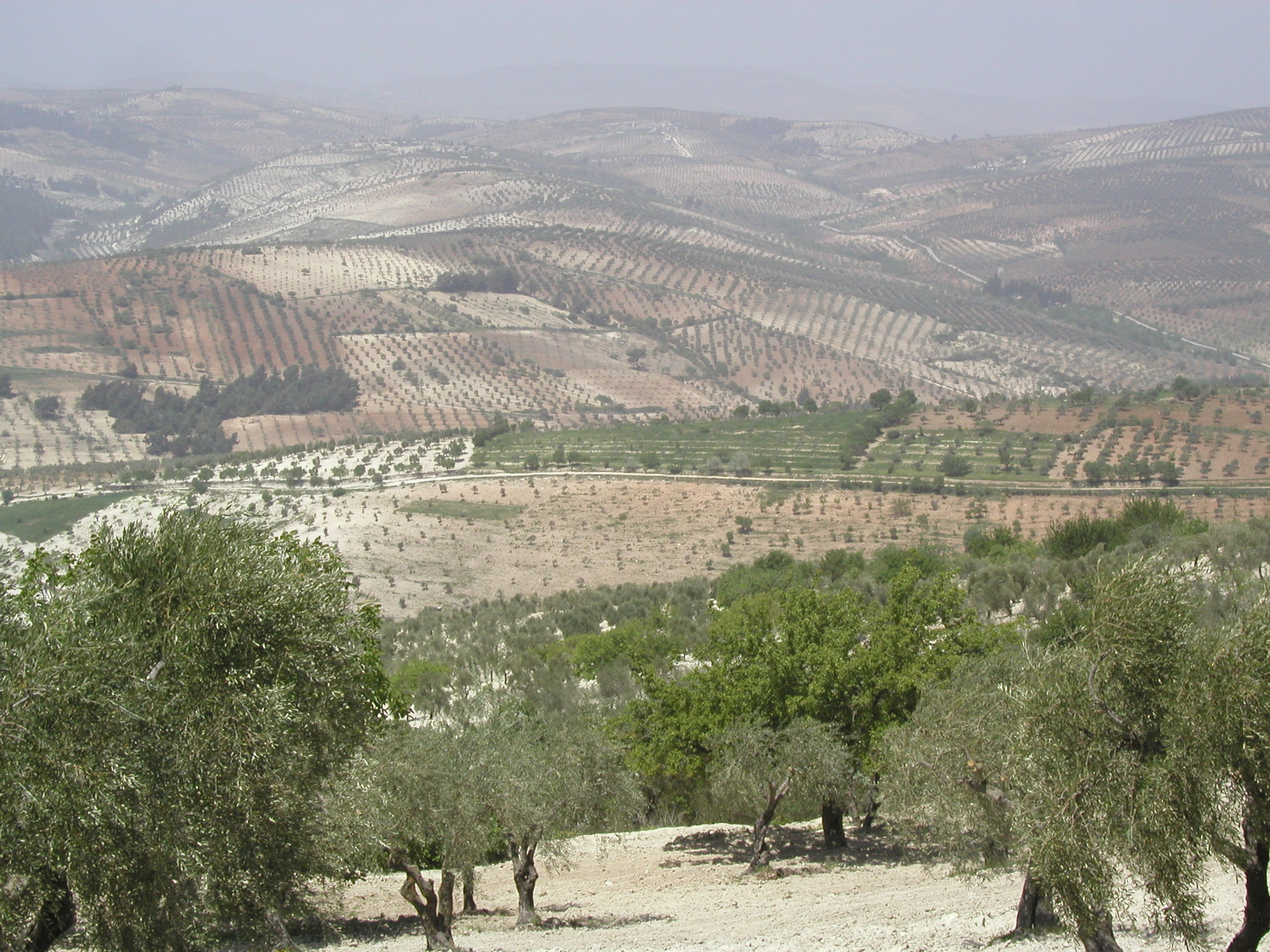 Olea europaea orchards in Syria — olive trees in the hills of Afrin District, in the Aleppo Governate.